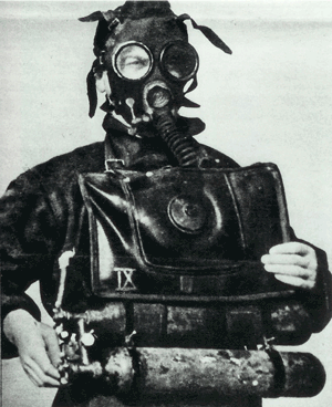 Range ("Gamma") operator of X MAS -author unknown- from ANAIM.it Translated Original caption: "GAMMA" Diver of the Christian Flotilla